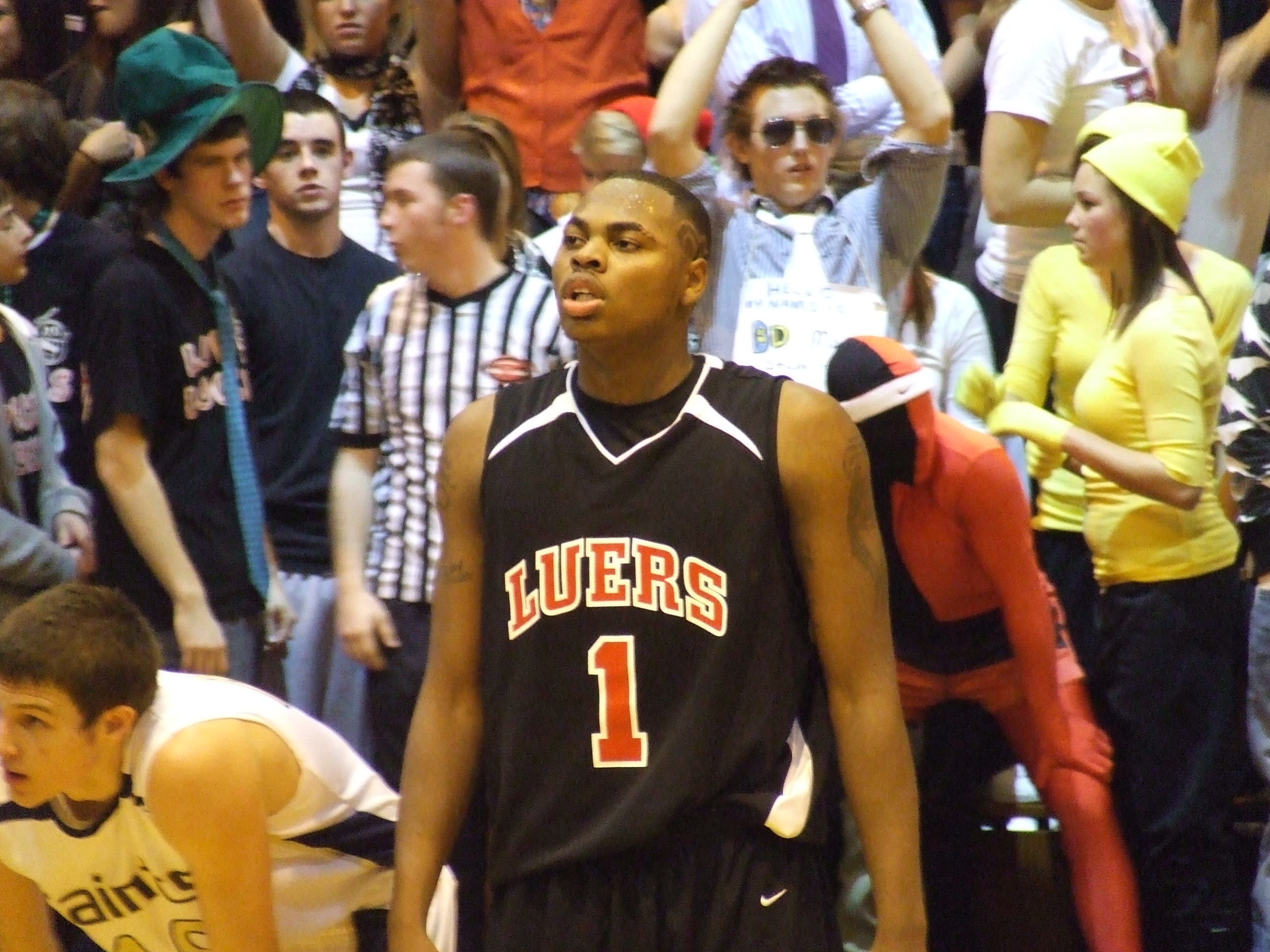 High school senior Deshaun Thomas on 1/8/2010, in a Bishop Luers game vs. Bishop Dwenger. Dwenger won 65-56.